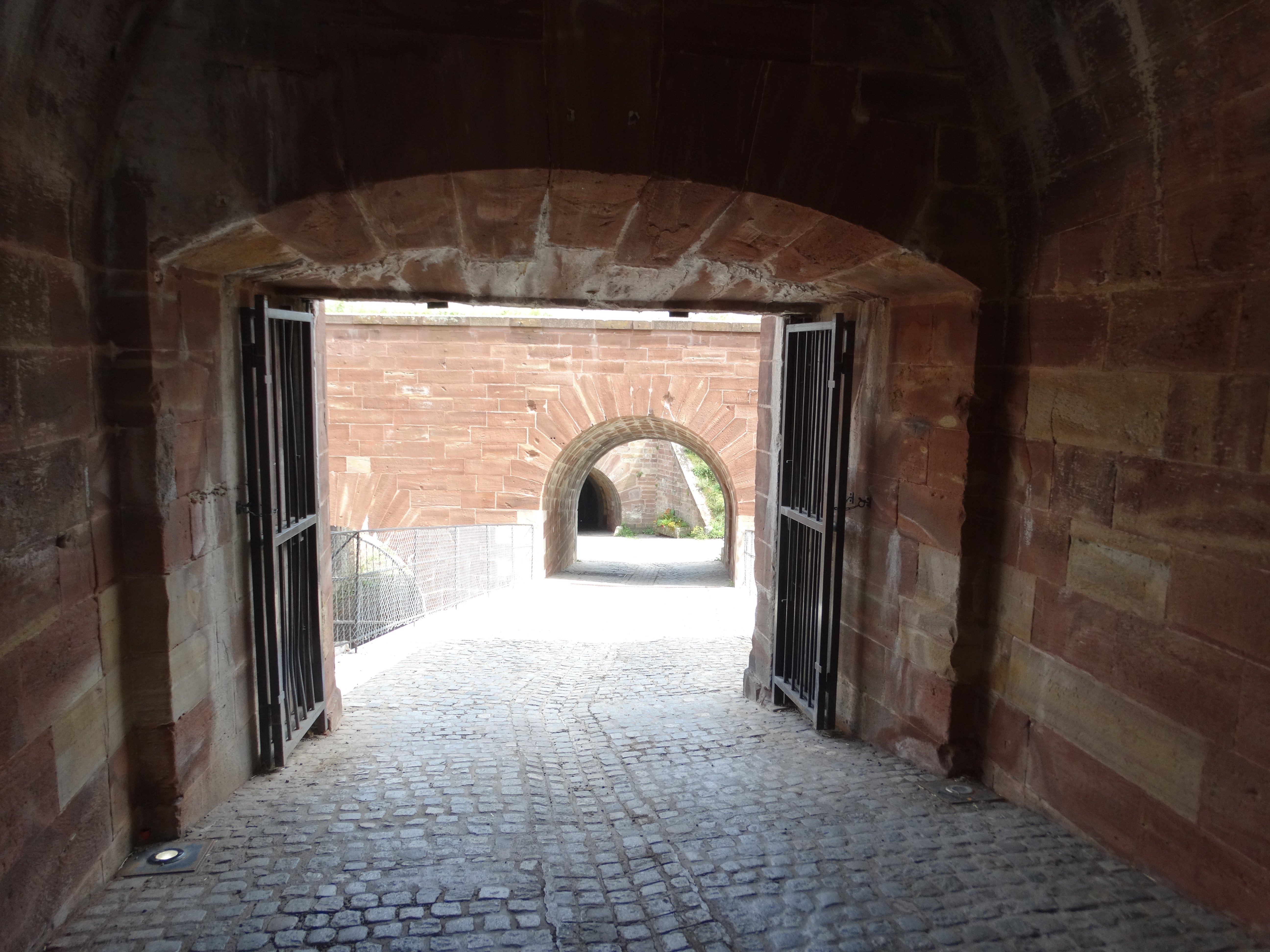 Gate chain through the walls of the citadel